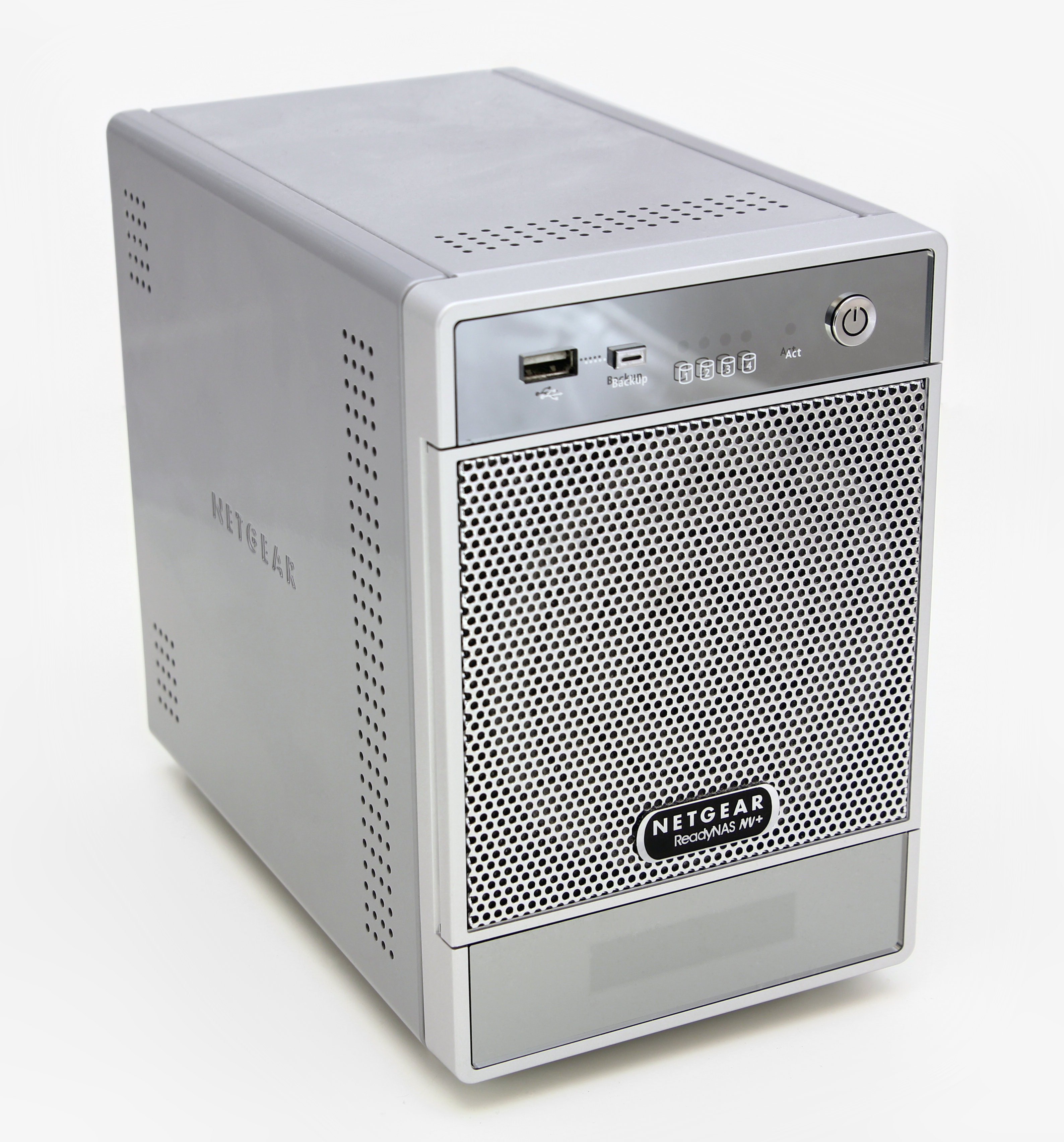 Netgear ReadyNAS NV+ from 2011. Picture created by user:PJ October 18 2011 using a Canon EOS 550D camera with the Tamron 28-75 mm f/2.8 lens.